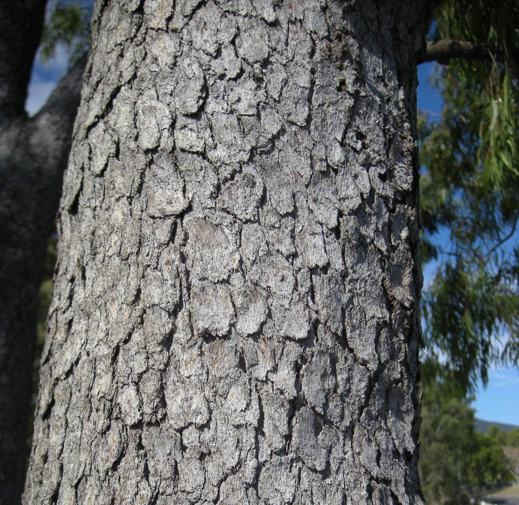 Corymbia clarksoniana bark, Mount Archer National Park, Rockhampton